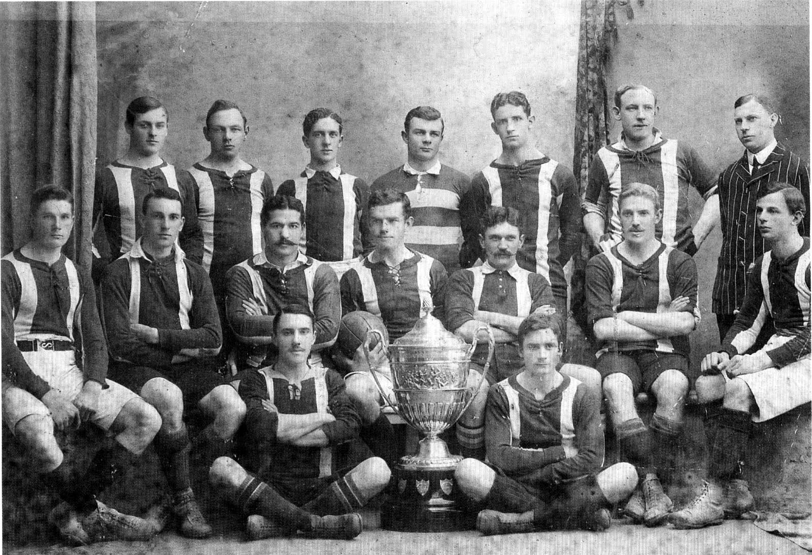 Belgrano Athletic Club rugby team which won its first title in 1907.